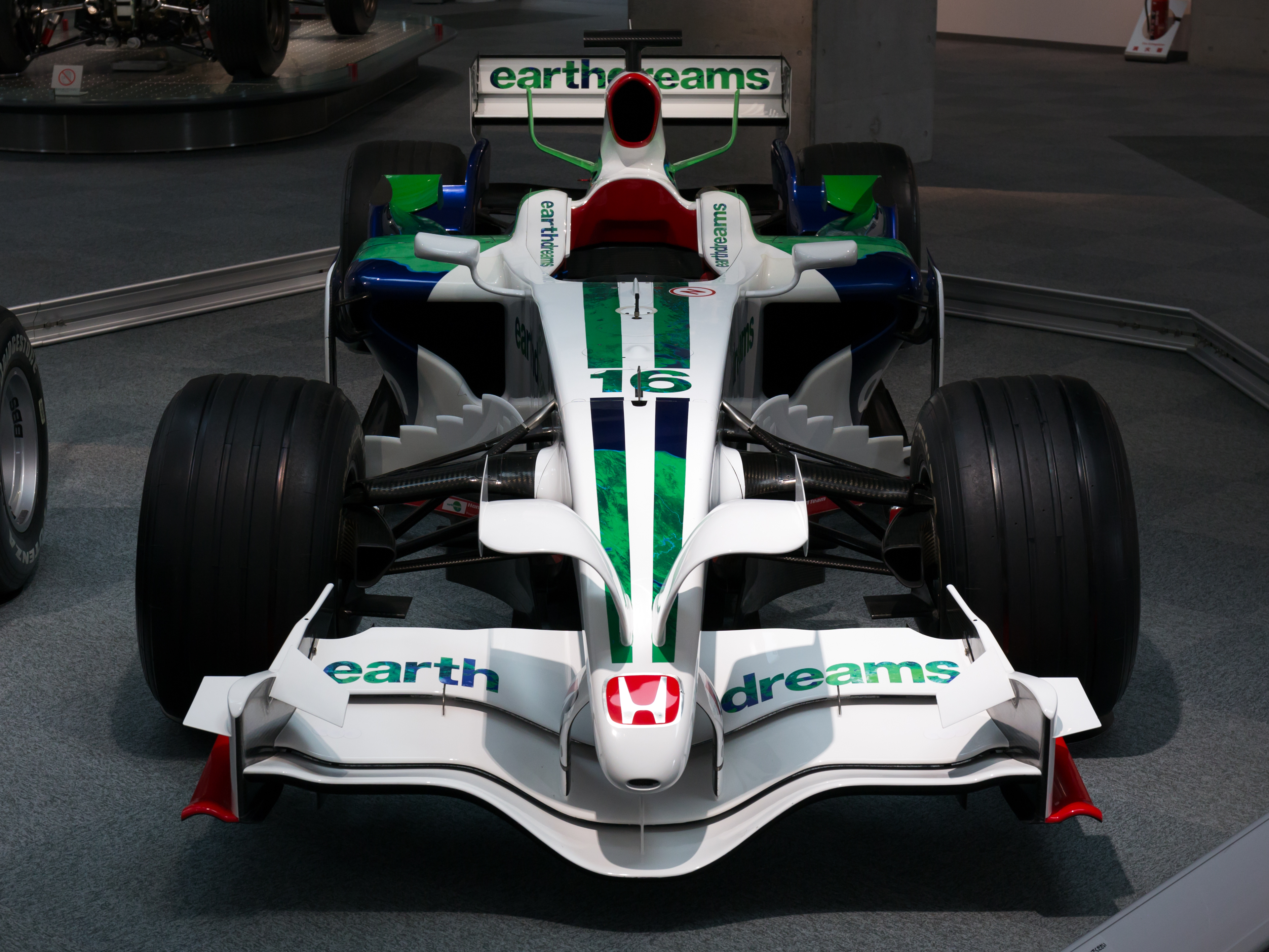 2008 Honda RA108